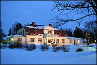 Shot of Lunnagård